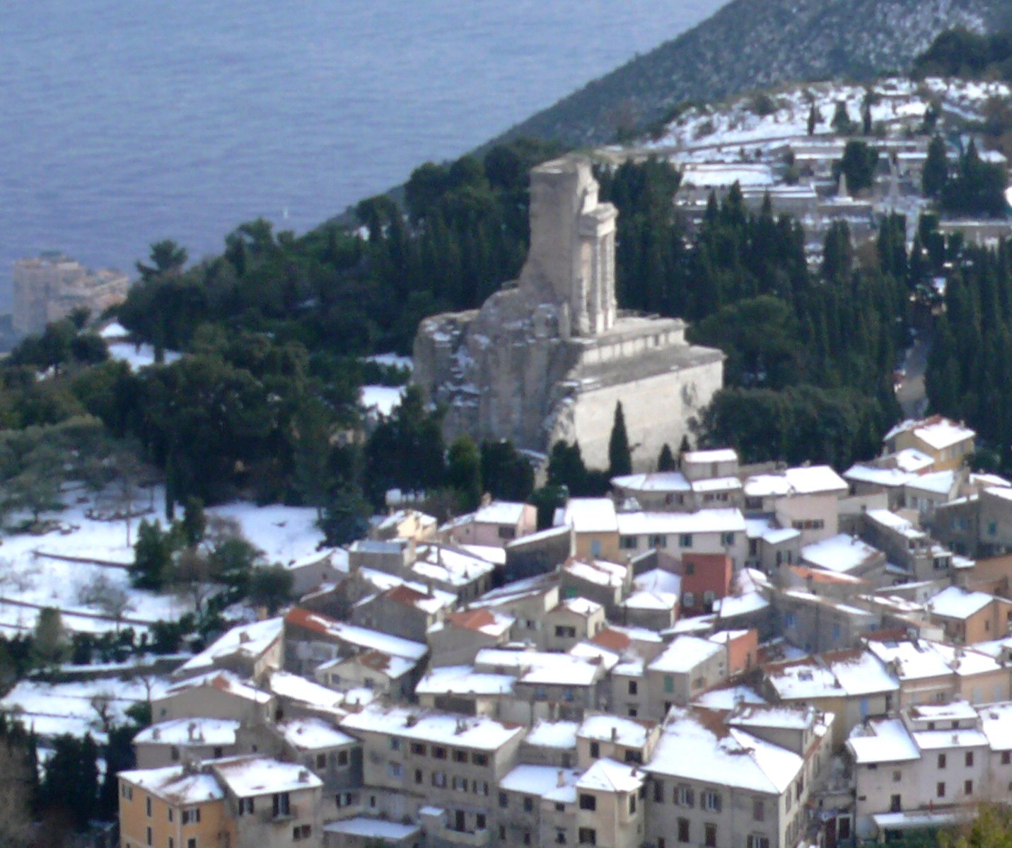 "Roman Emperor Auguste" monument view from "Bataille" mount .